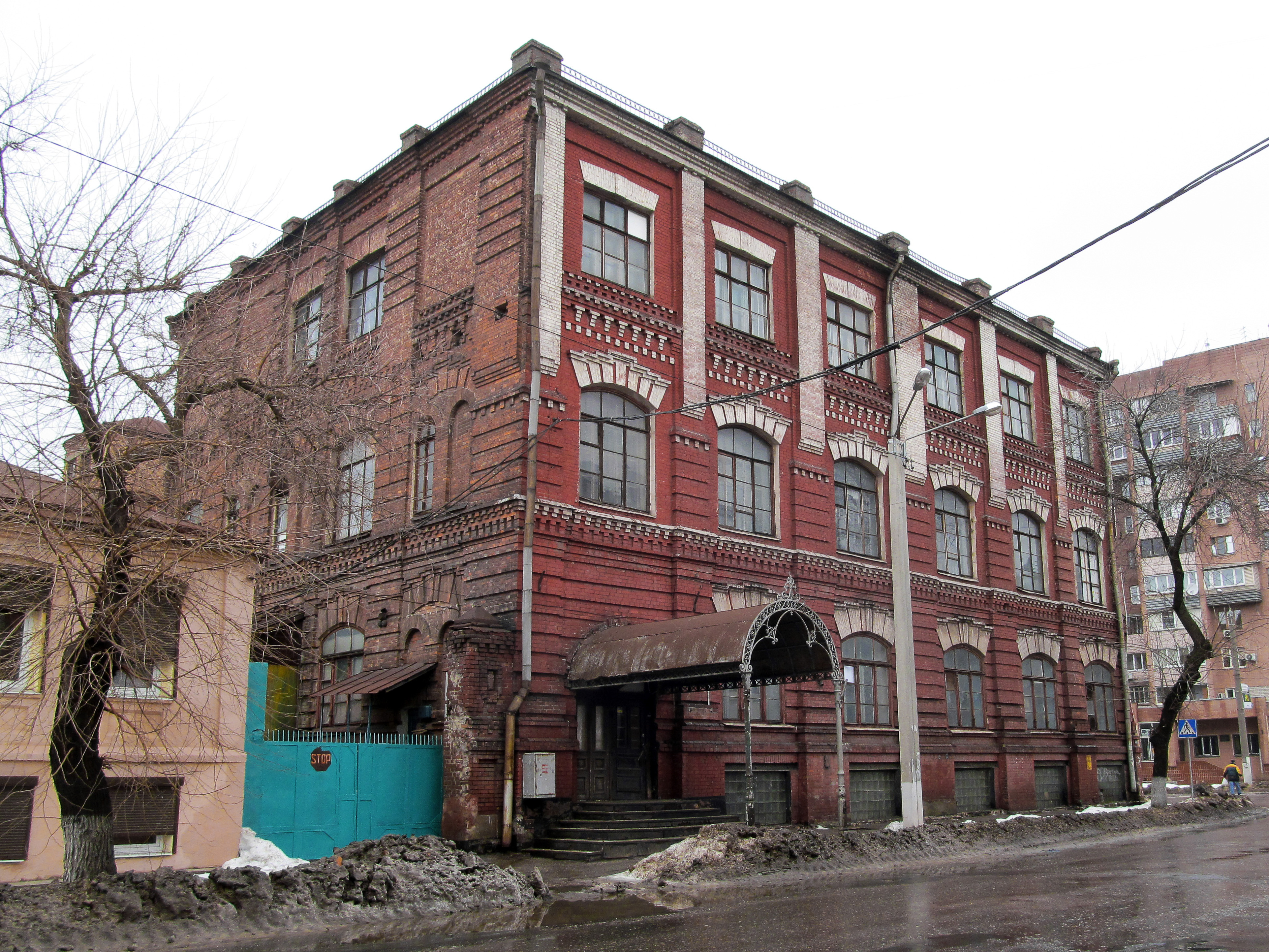 Koneva Street, 10/2, Kharkiv, Ukraine. Printing house, side facade.